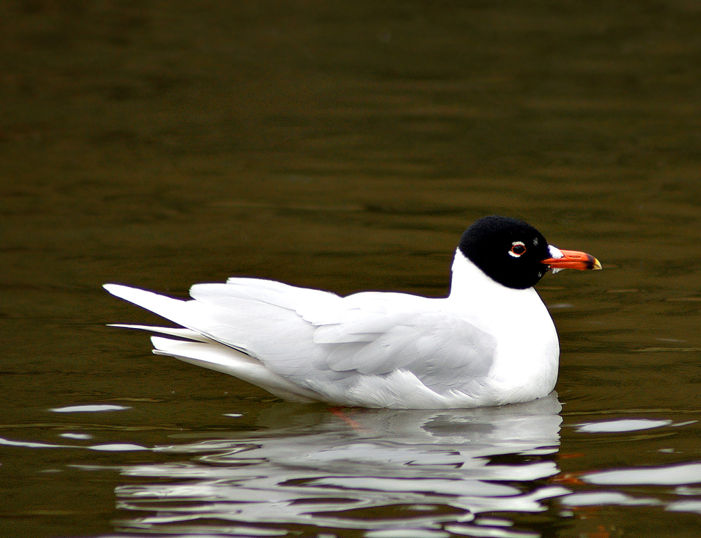 Bird of the species Larus melanocephalus. English name is Mediterranean Gull. The photograph was taken in the park Slottskogen in Gothenburg, Sweden. This species is very rare in this area. Normally the mediterranean gulls are seen around the Caspian Ocean.